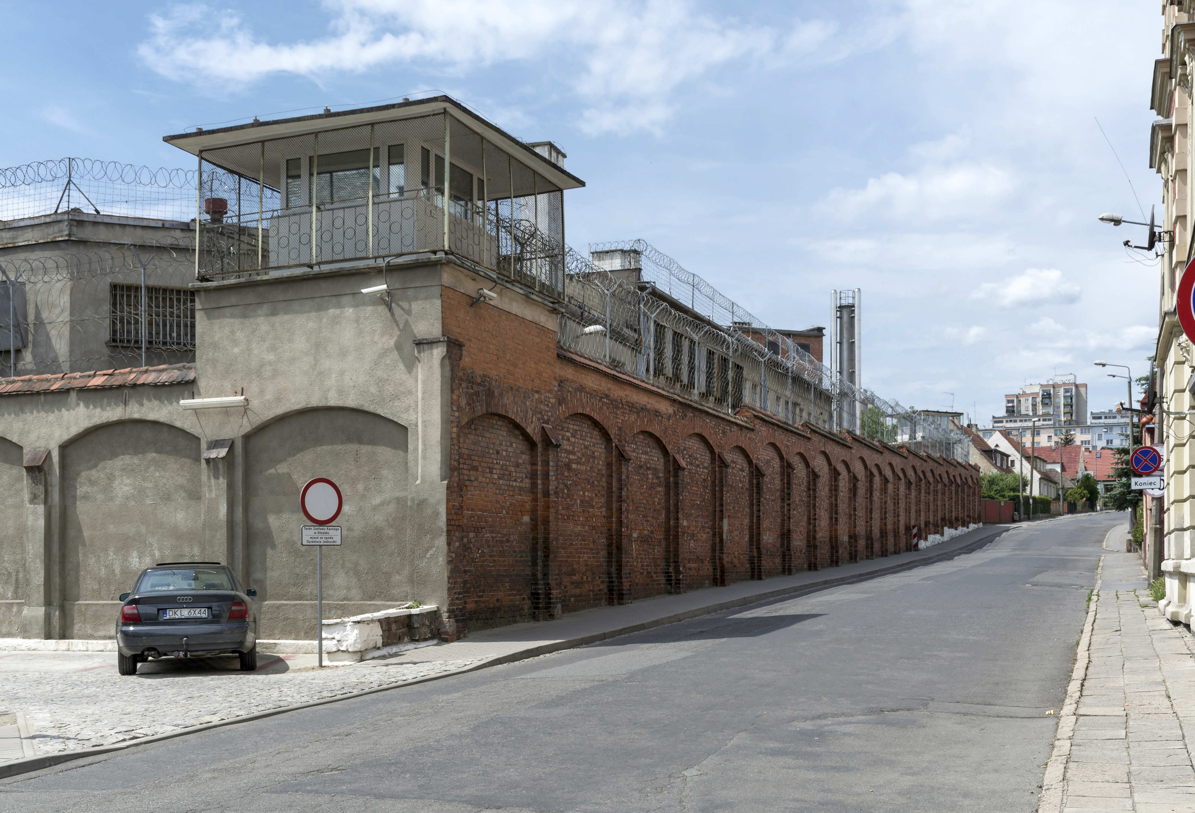 Hołdu Pruskiego Street and Prison in Kłodzko